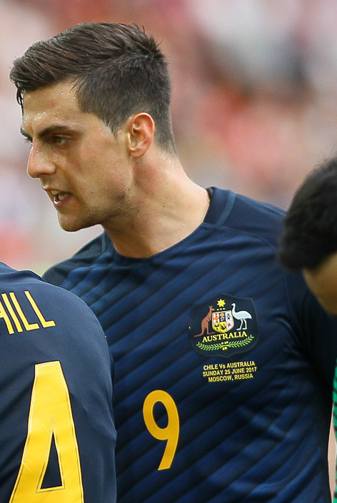 Chile VS. Australia 1 - 1, 25 June 2017